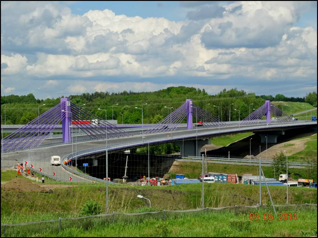 Freeway bridge on autostrada A1 in Mszana, Poland